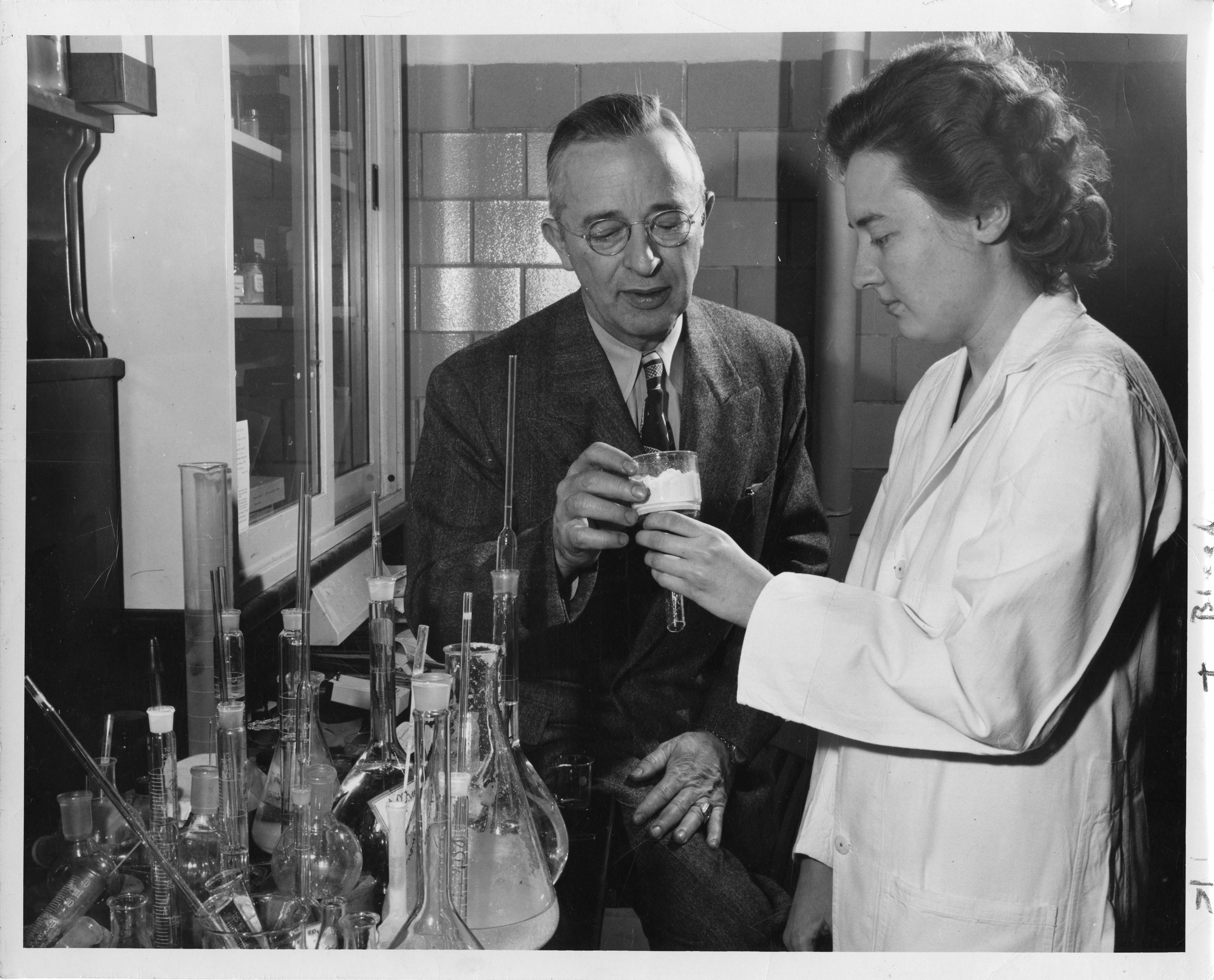 Subject: Payne, Eugene H Rebstock, Mildred Catherine 1919-2011 Parke-Davis Research Laboratories Type: Black-and-white photographs Topic: Pharmacology Women scientists Local number: SIA Acc. 90-105 [SIA2009-1338] Summary: left to right: Eugene H. Payne and Mildred Catherine Rebstock (1919-2011). Payne was the first person to use chloromycetin on humans and Rebstock, the leader of the Parke-Davis Research Laboratories team, was the first person to synthesize the drug Cite as: Acc. 90-105 - Science Service, Records, 1920s-1970s, Smithsonian Institution Archivess Persistent URL:Link to data base record Repository:Smithsonian Institution Archives View more collections from the Smithsonian Institution.